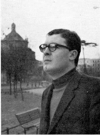 Rodolfo Quadrelli, Italian literary critic, poet and essayist